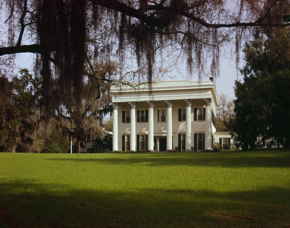 Millford, Wedgefield-Rimini Road, Pinewood, Sumter County, SC. GENERAL VIEW OF MAIN HOUSE, LOOKING SOUTHEAST.